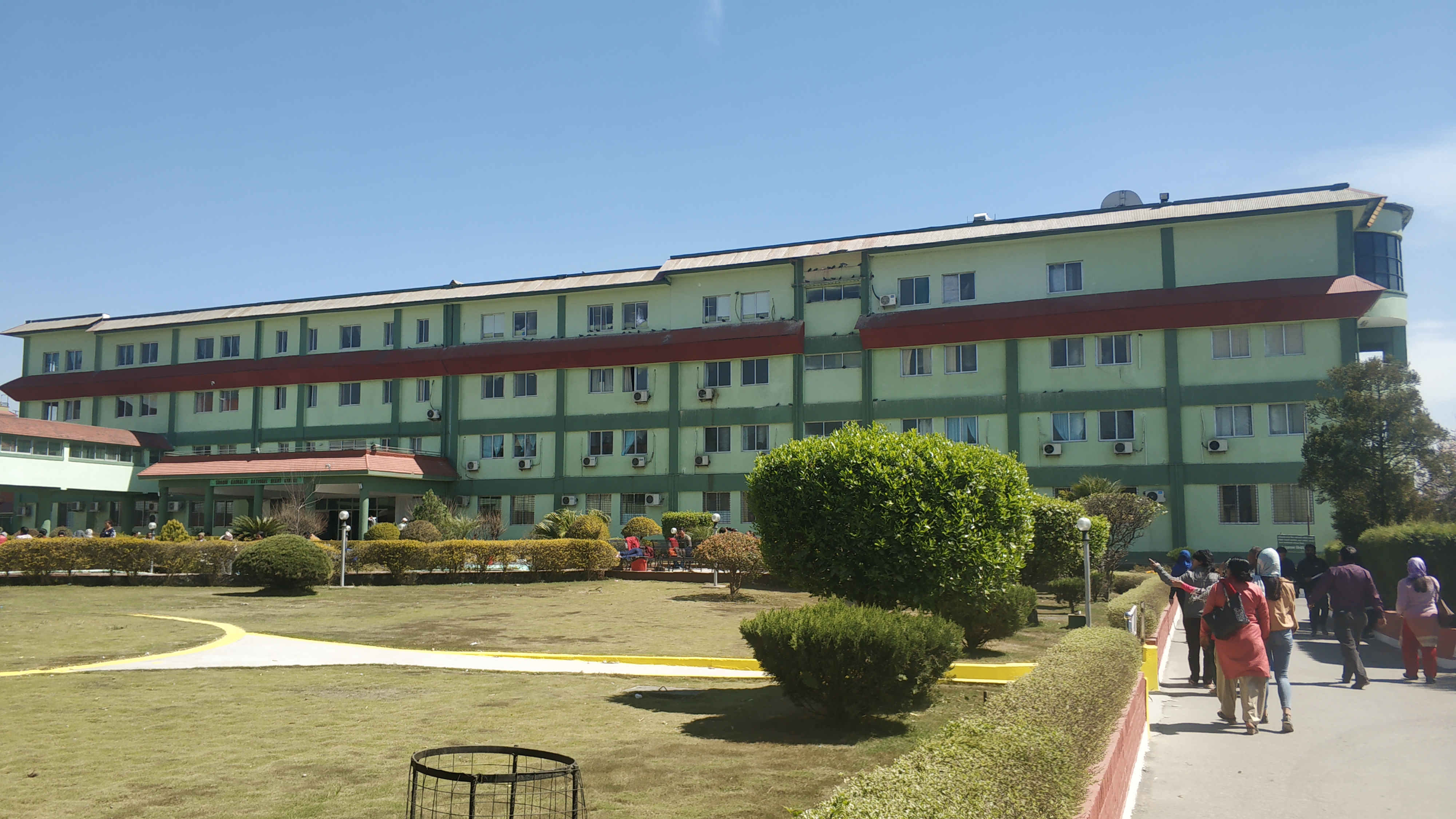 Shahid Gangalal National Heart Centre Banshawari, Kathmandu.